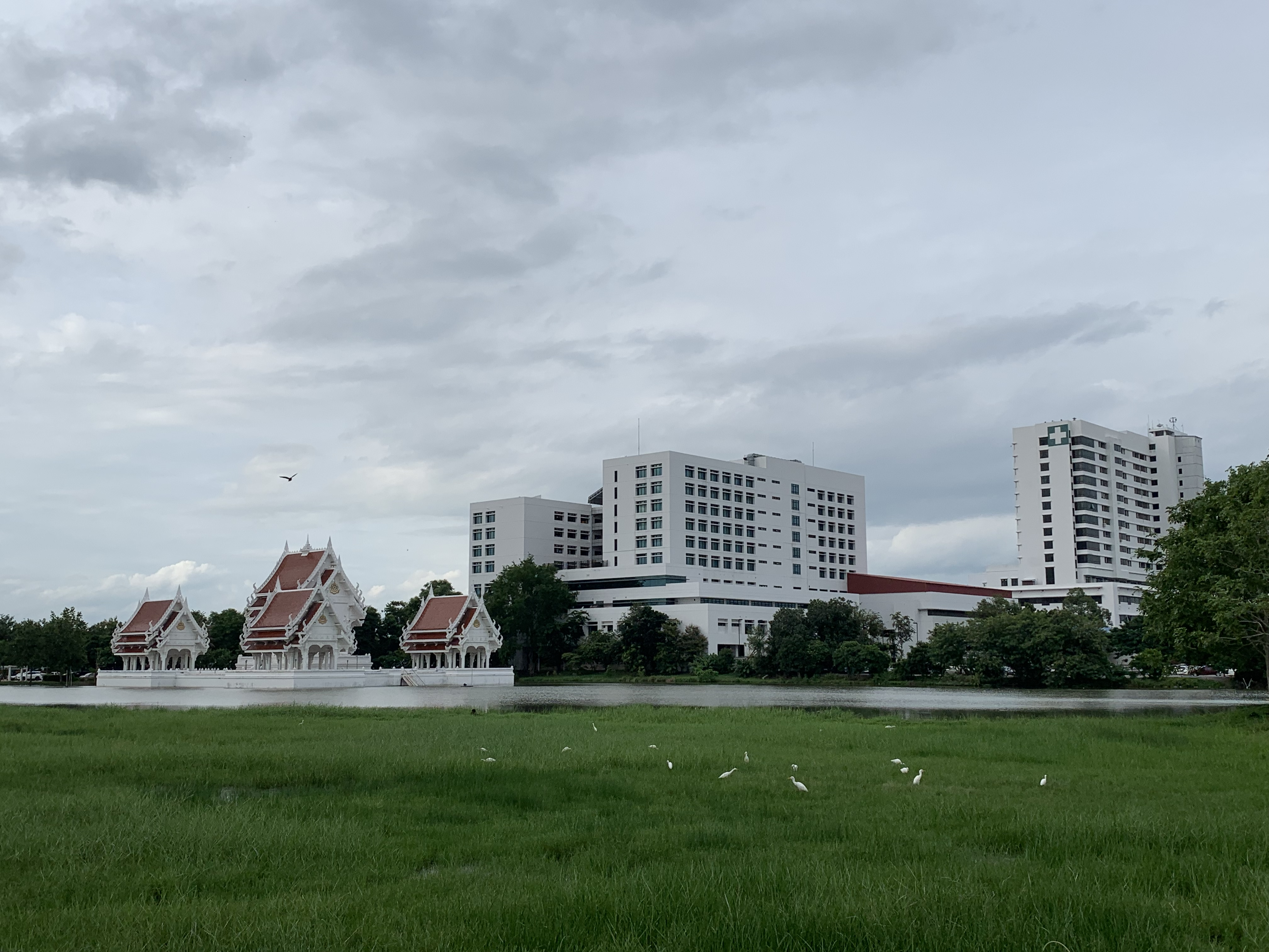 Srinakharinwirot University Ongkharak Campus